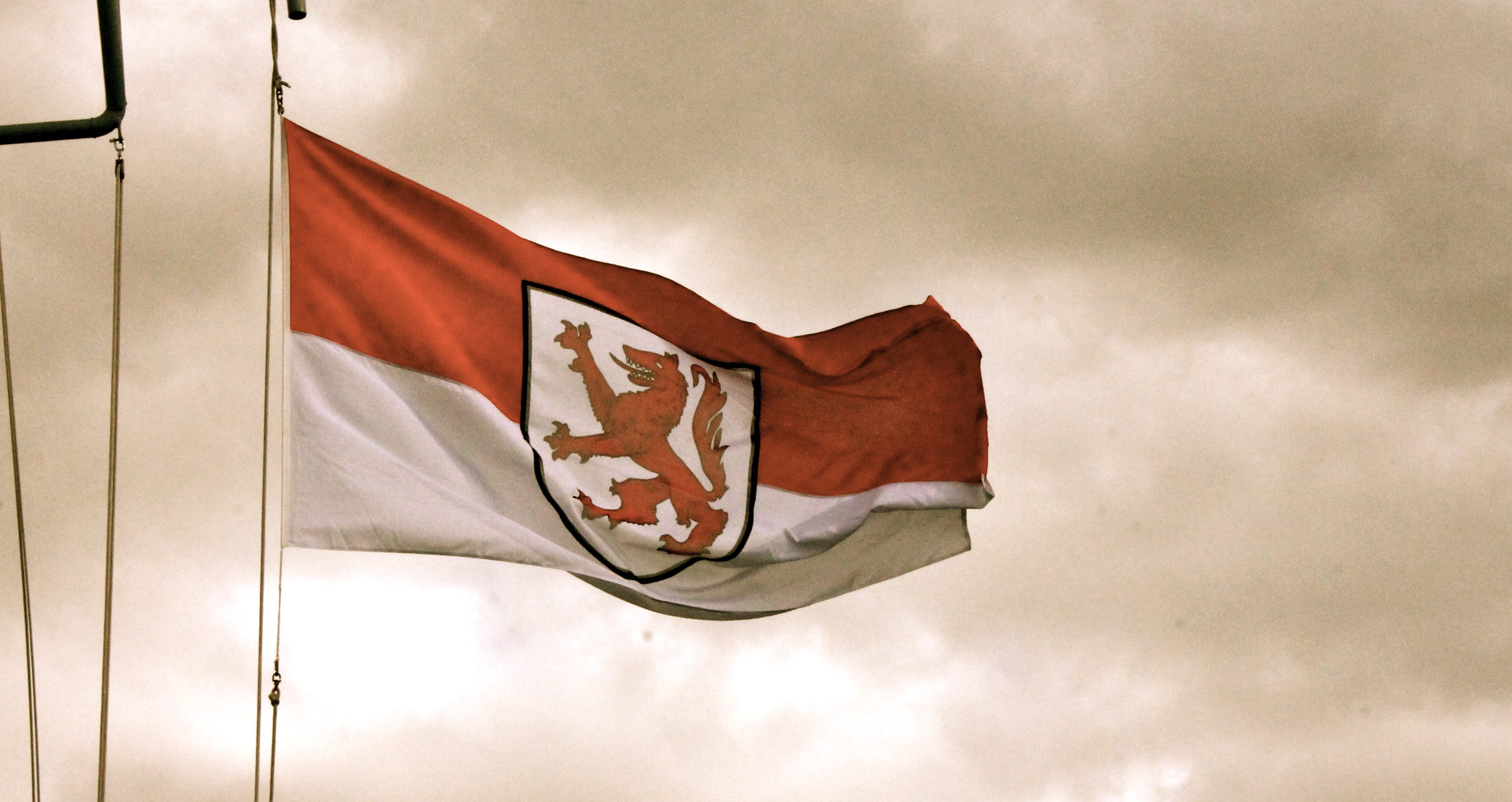 The City of Passau ensign flying in the yardarm of German Minehunter Passau